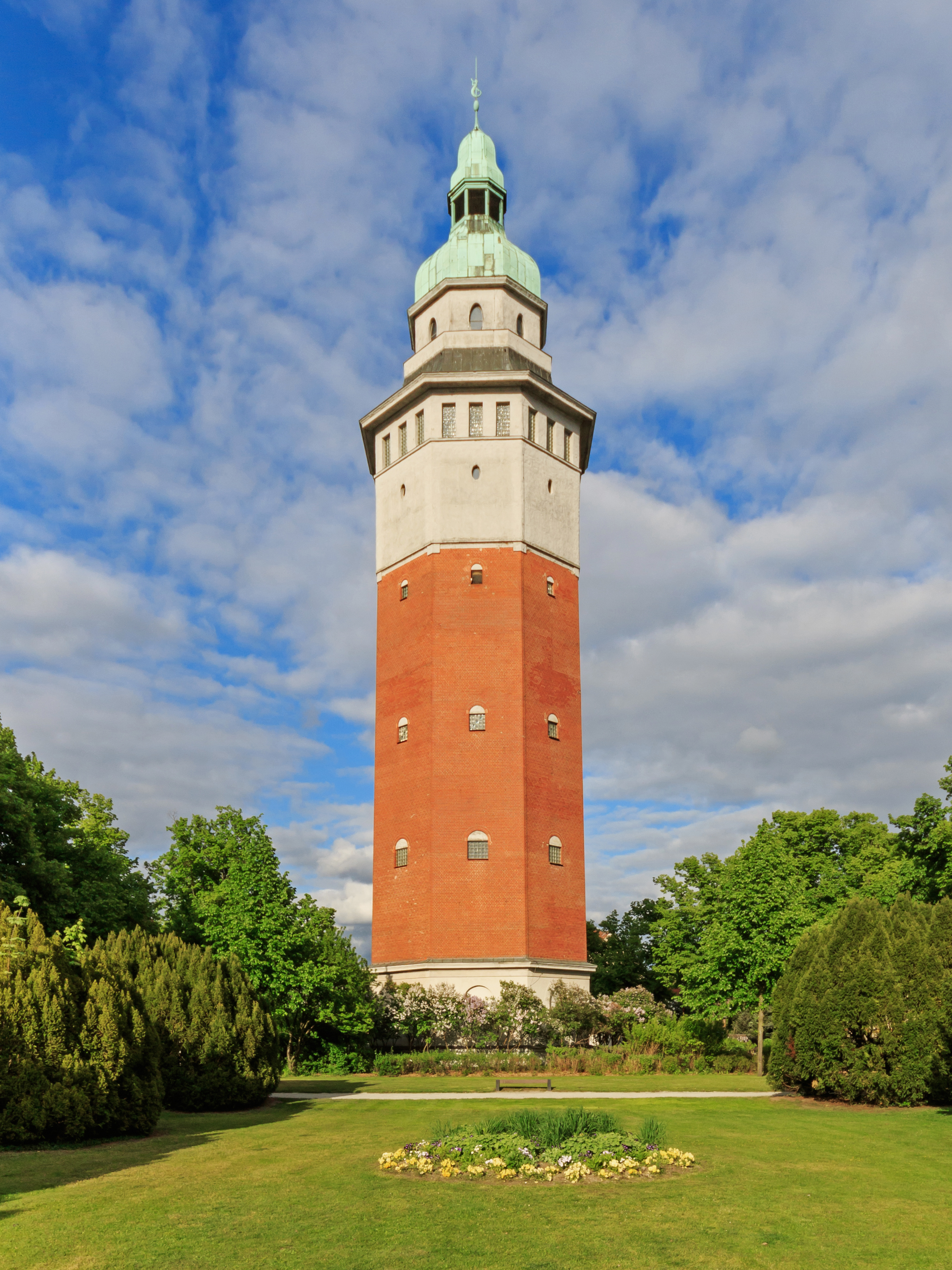 Finsterwalde (Brandenburg, Germany): Water tower